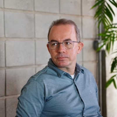 profile picture